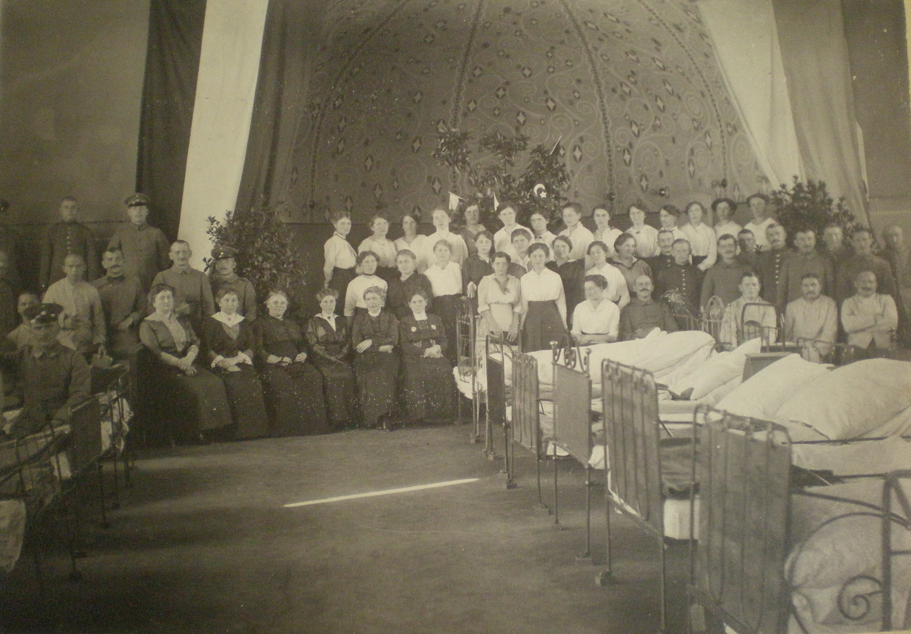 The hospital for victims of the WW1 in Münchberg.